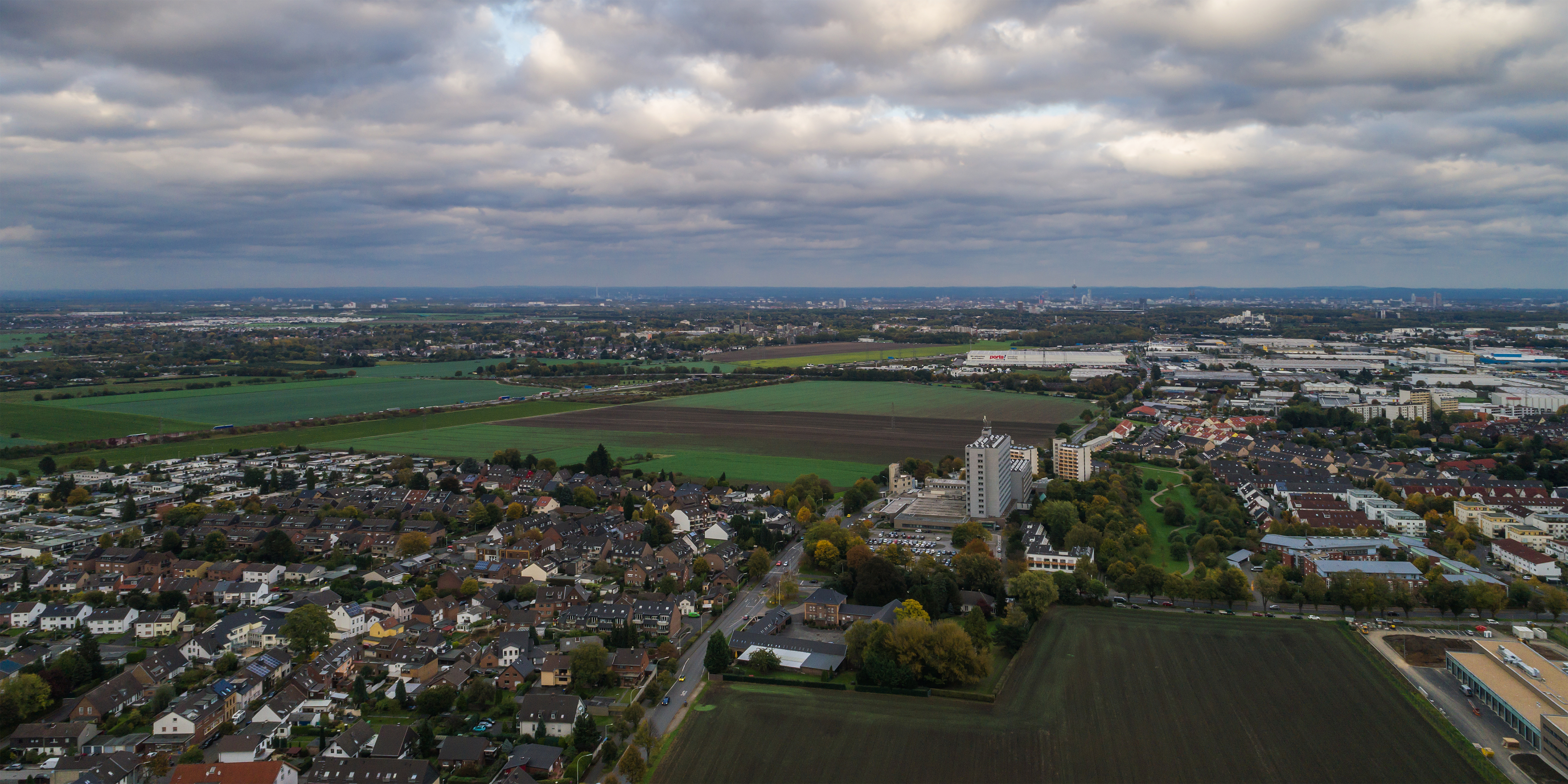 Aerial photo of Frechen, Rhein-Erft-Kreis (Germany)